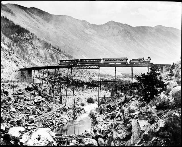 A view of the Georgetown Loop Railroad high bridge circa 1885.